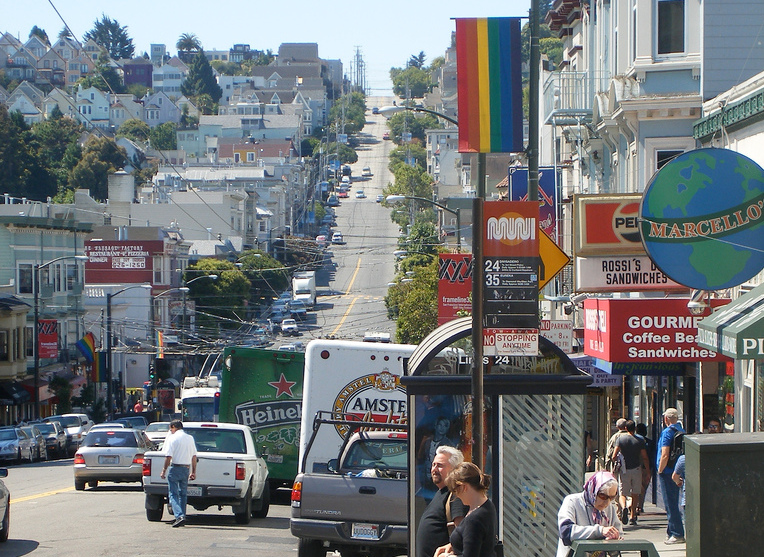 Castro Street, San Francisco, USA